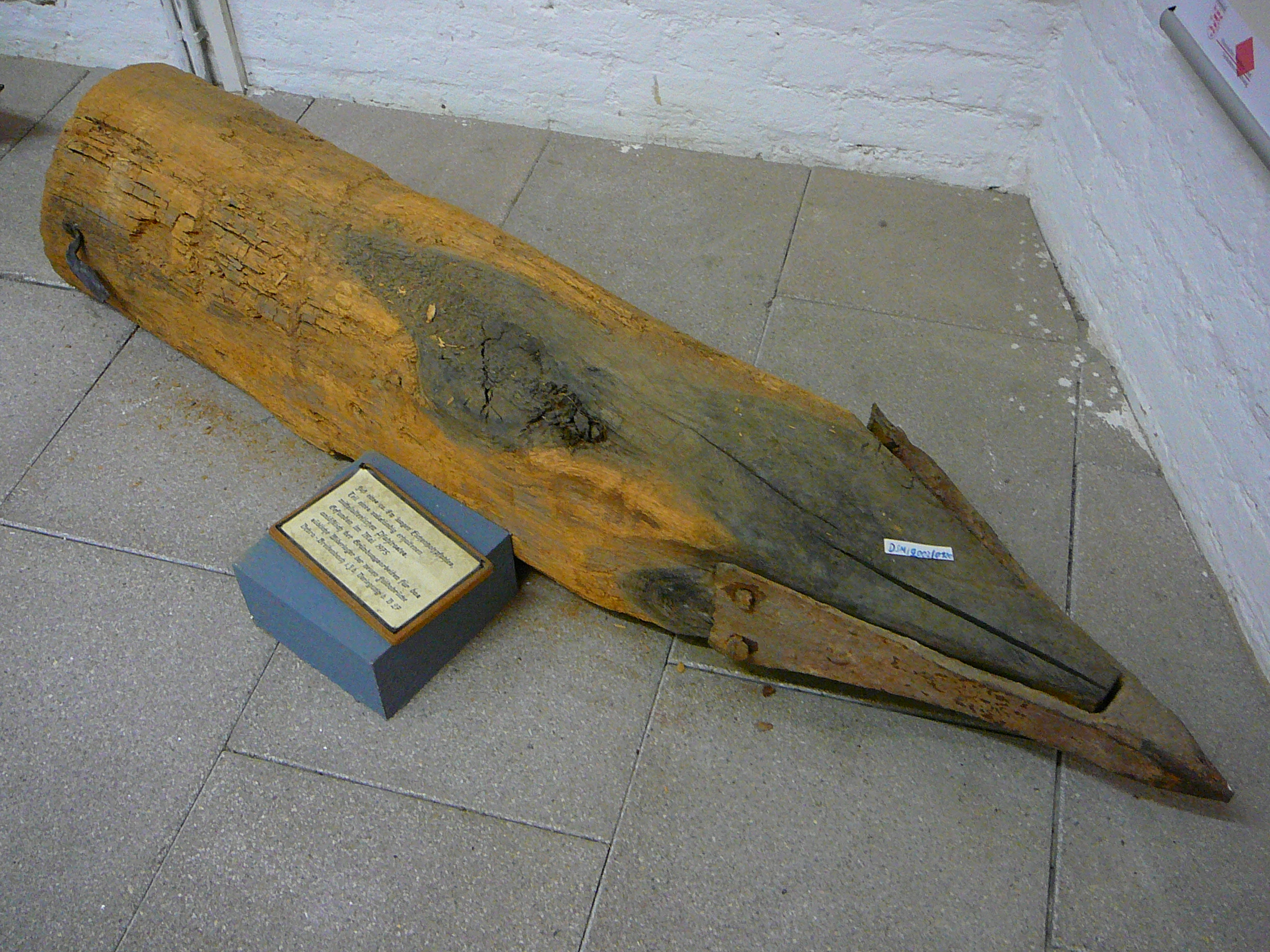 End piece of a medieval oak tree pile for the foundation of a timber bridge. At the top an iron drive shoe to facilitate the ramming of the originally 8 m long pile into the river bed. Found in 1975 during foundation work of the new bridge across the Fulda river in Germany. On display in Deutsches Straßenmuseum Germersheim, Rhineland-Palatinate, Germany.